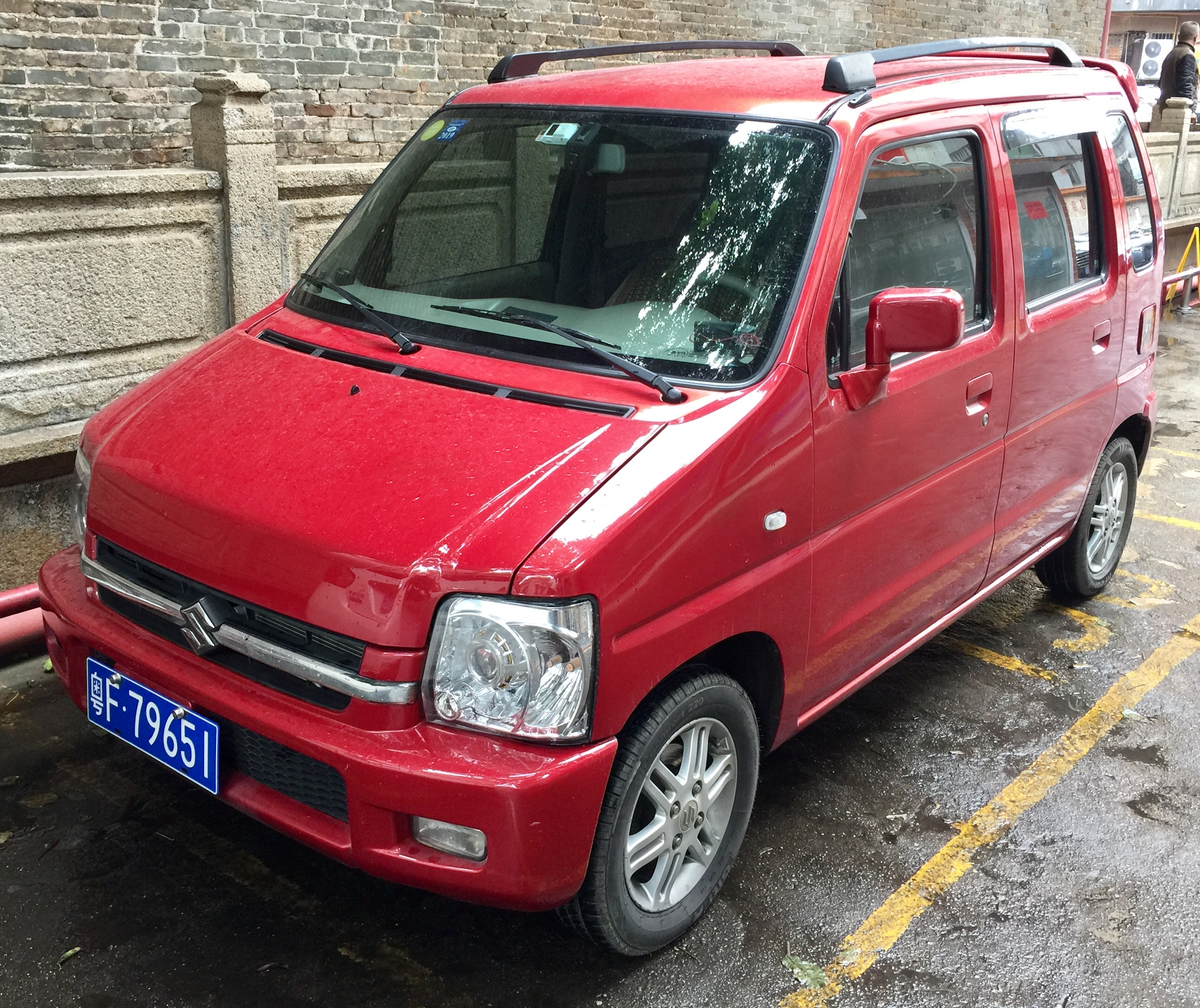 A red Changhe-Suzuki Beidouxing. Taken in Shaoguan , Guangdong province, China.